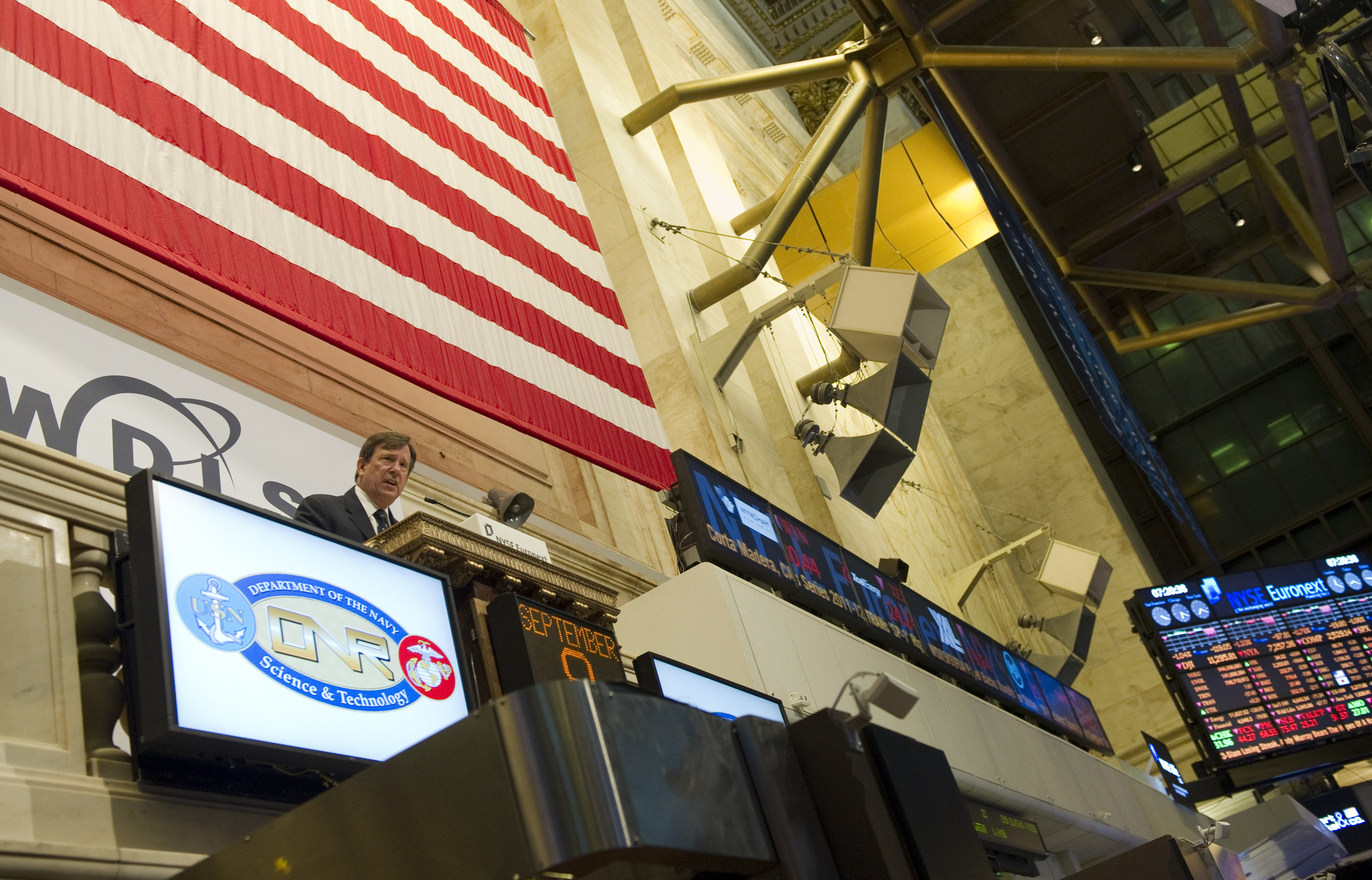 NEW YORK (Sept. 8, 2011) Dr. Michael Kassner, director of research for the Office of Naval Research, provides an overview of naval science, technology, engineering and mathematics (STEM) programs during the World Diversity Leadership Summit gala honoring Afghanistan and Iraq war veterans at the New York Stock Exchange. (U.S. Navy photo by John F. Williams/Released)